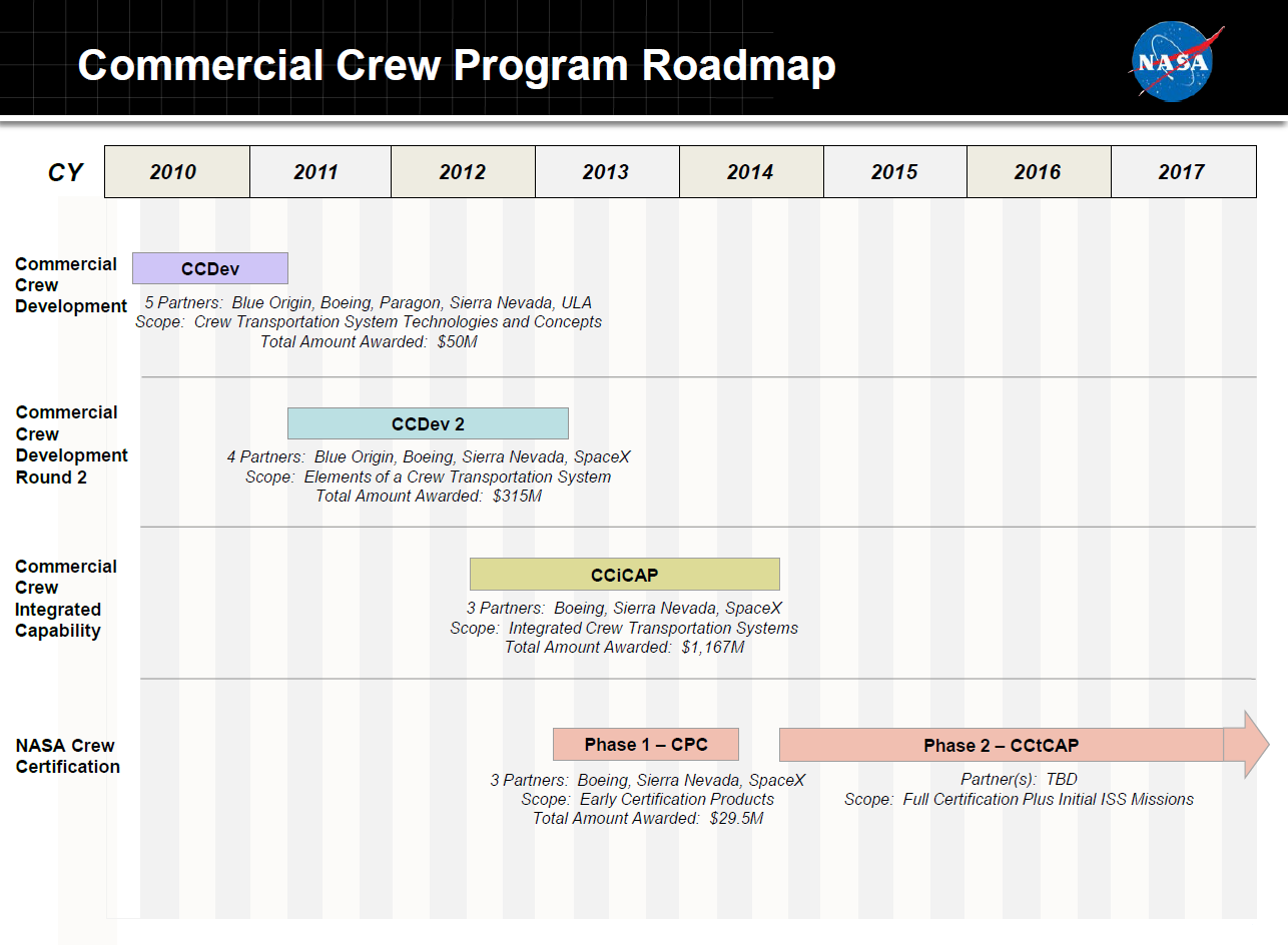 Notional Commercial Crew schedule as of December 9th, 2013.